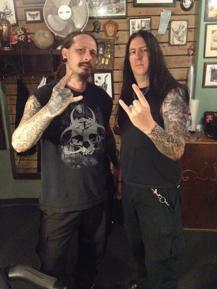 tattoo